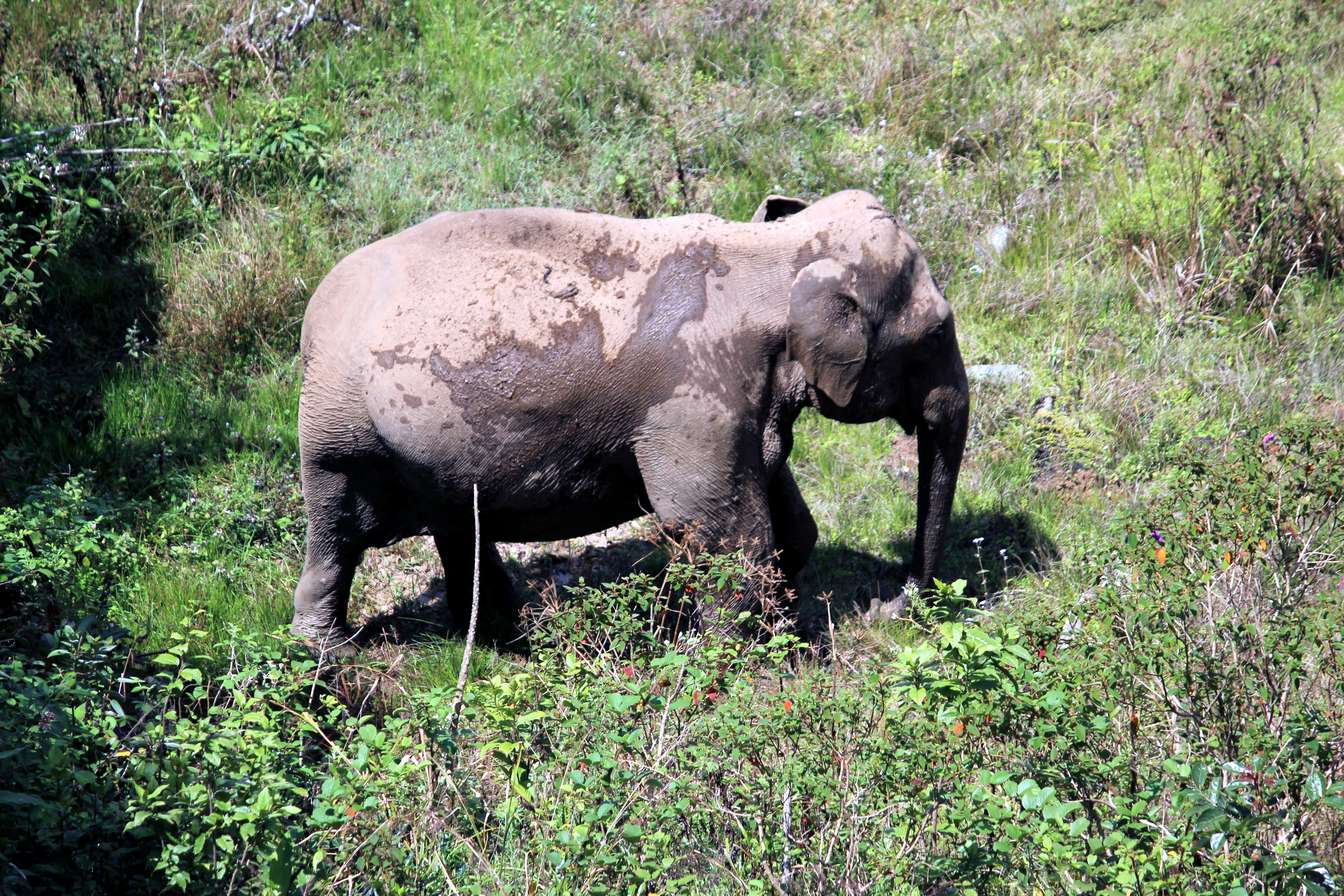 Indian wild elephant from Marayoor Forest, Munnar, Kerala